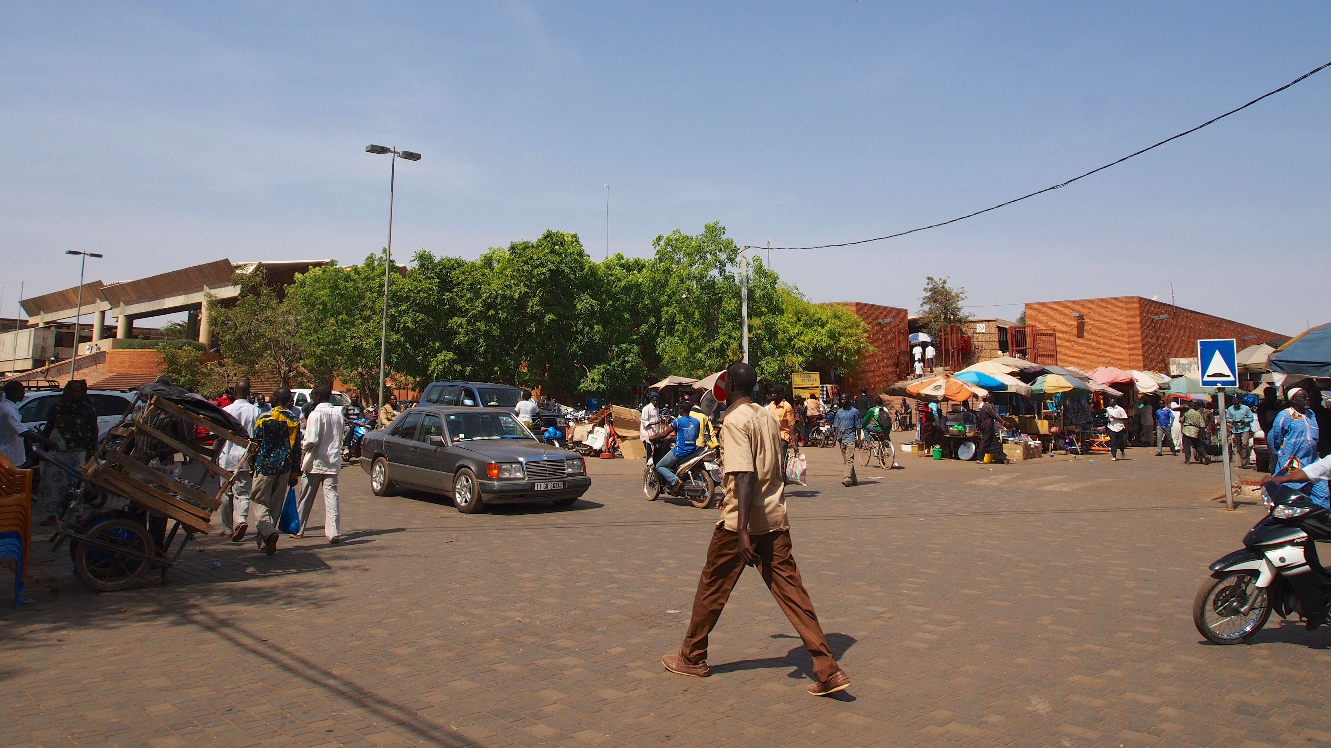 Rood Woko, central market of Ouagadougou, Burkina Faso